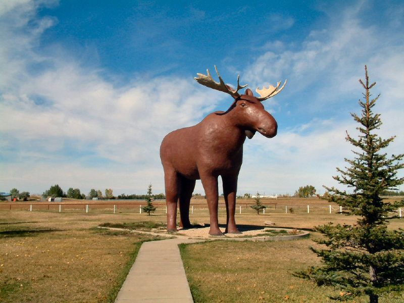 Mac the Moose stands on the edge of Moose Jaw, Saskatchewan.